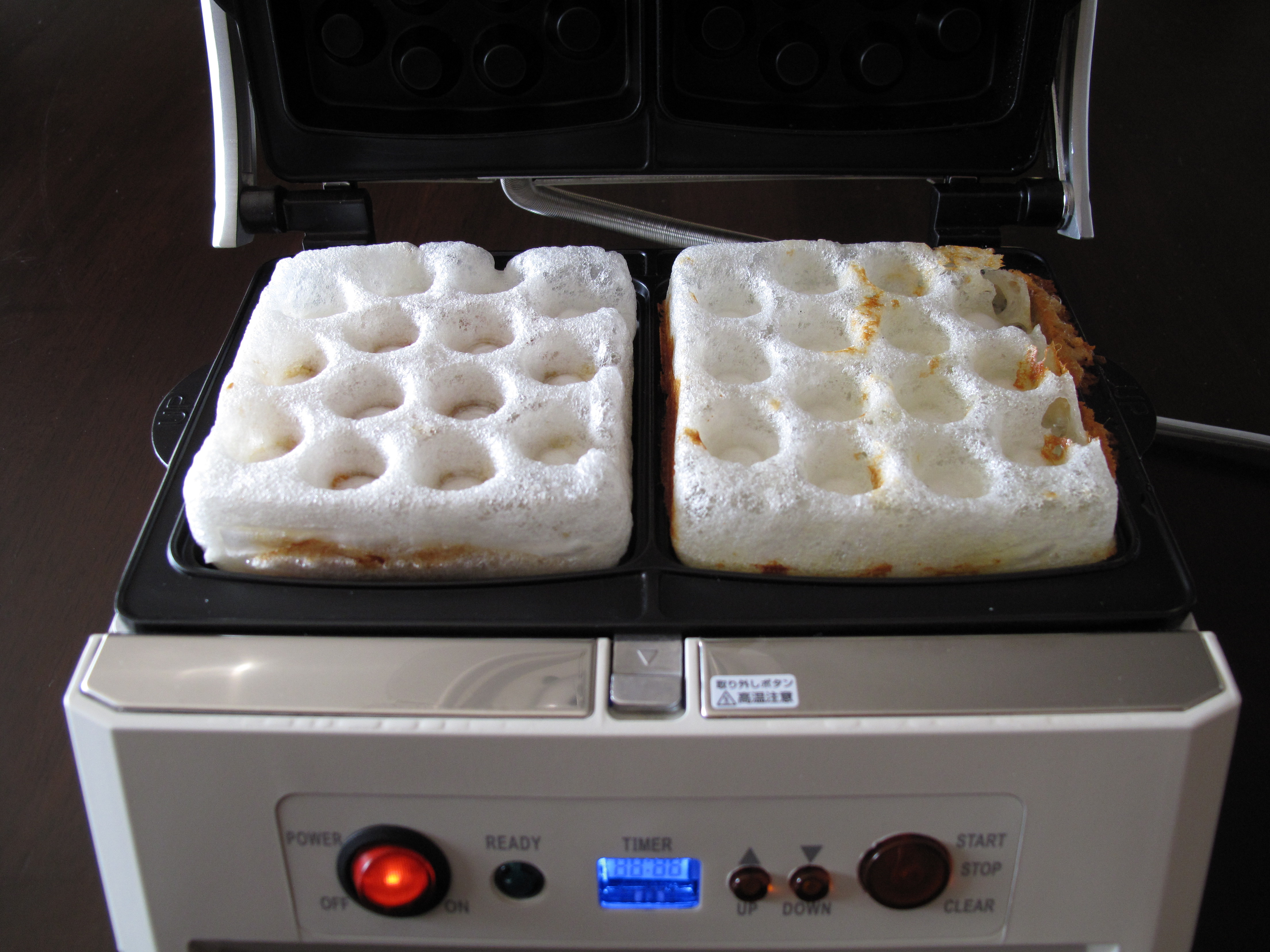 "Moffle" Press-Mochi, Press-rice cake , Mochi-Waffles Japan